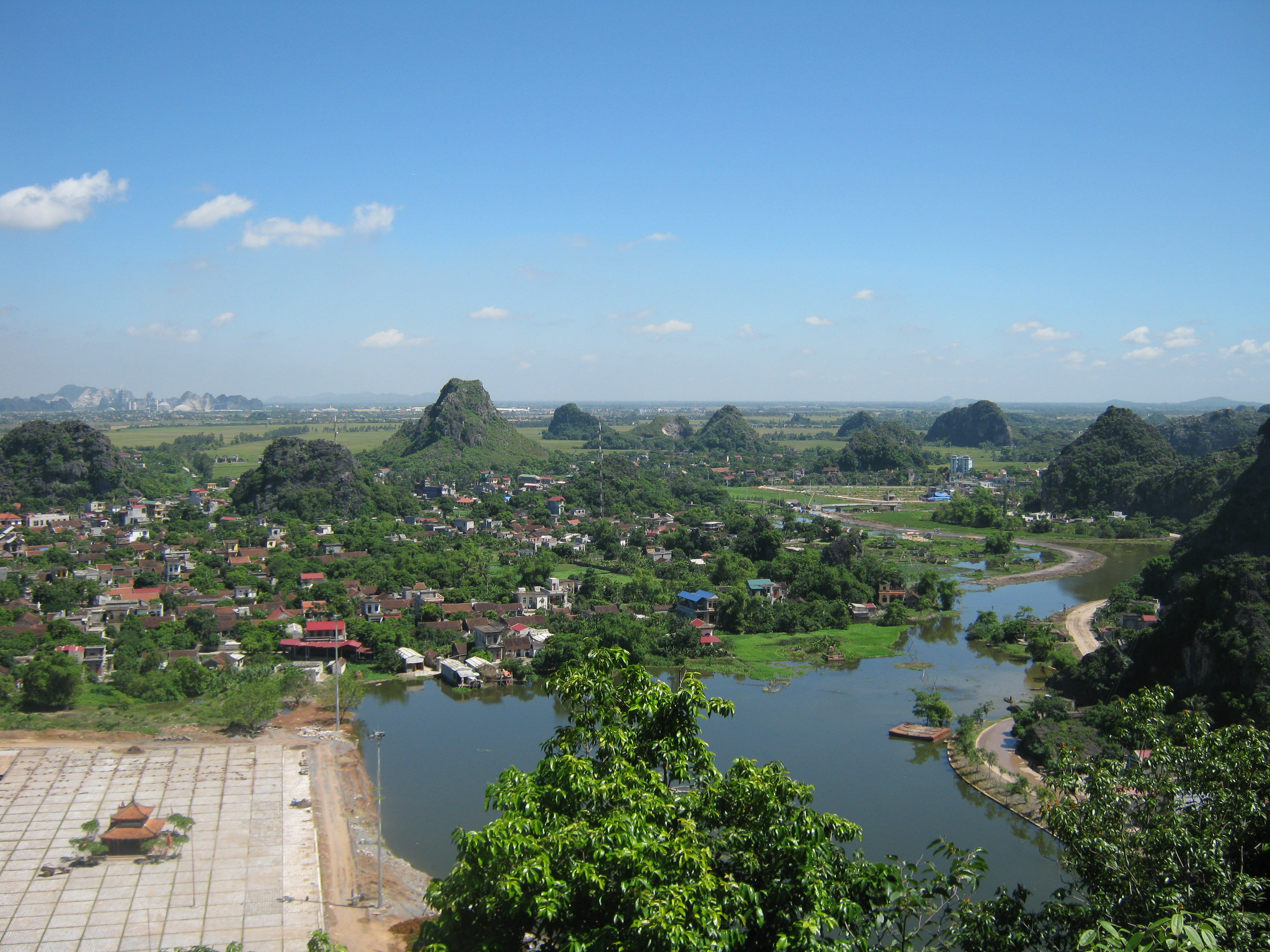 Scenery of Hoa Lu ancient capital, Ninh Binh, autumn 2010